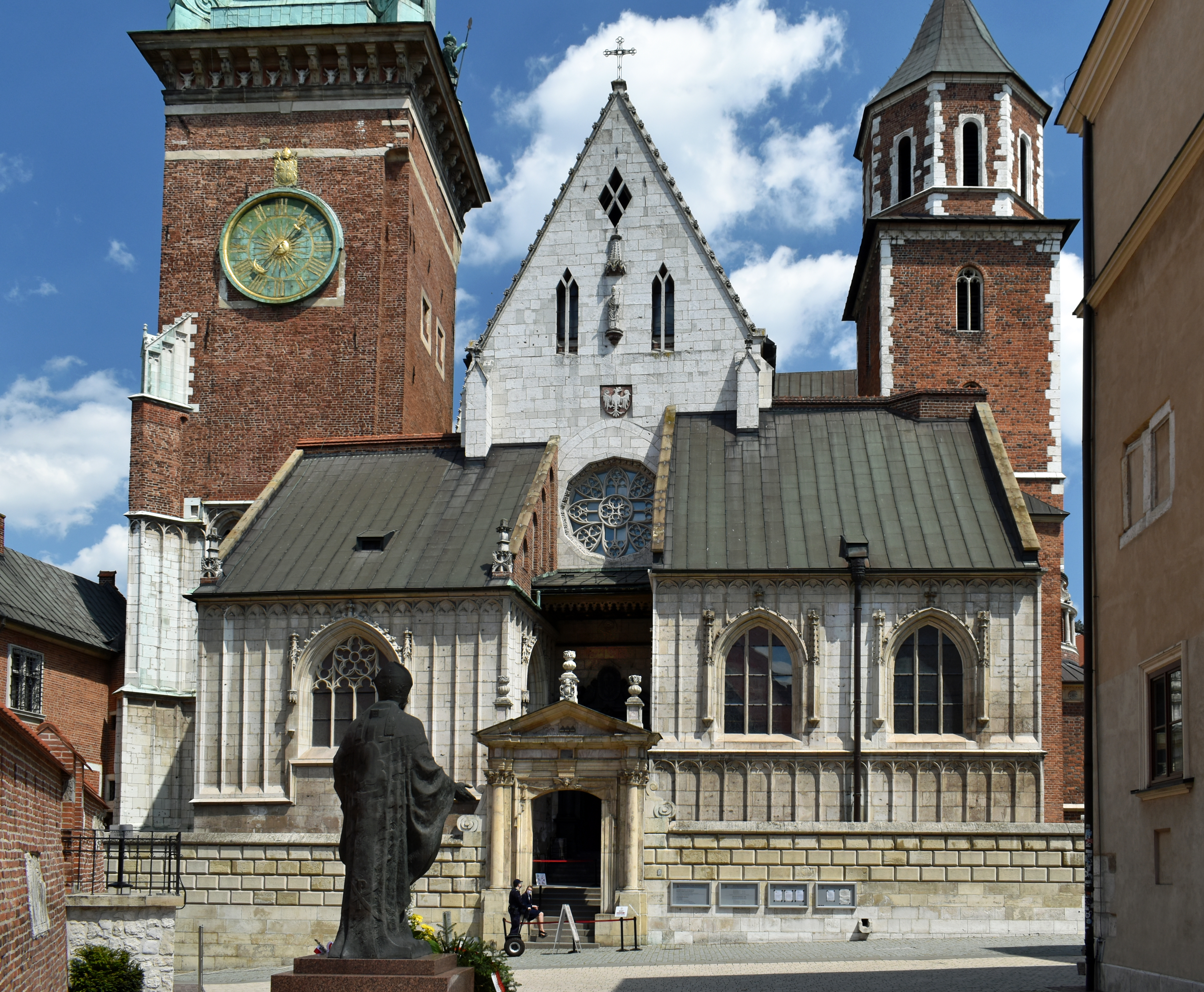 Church of St. Stanislaus and St. Wenceslaus, facade, Wawel 1, Old Town, Krakow, Poland